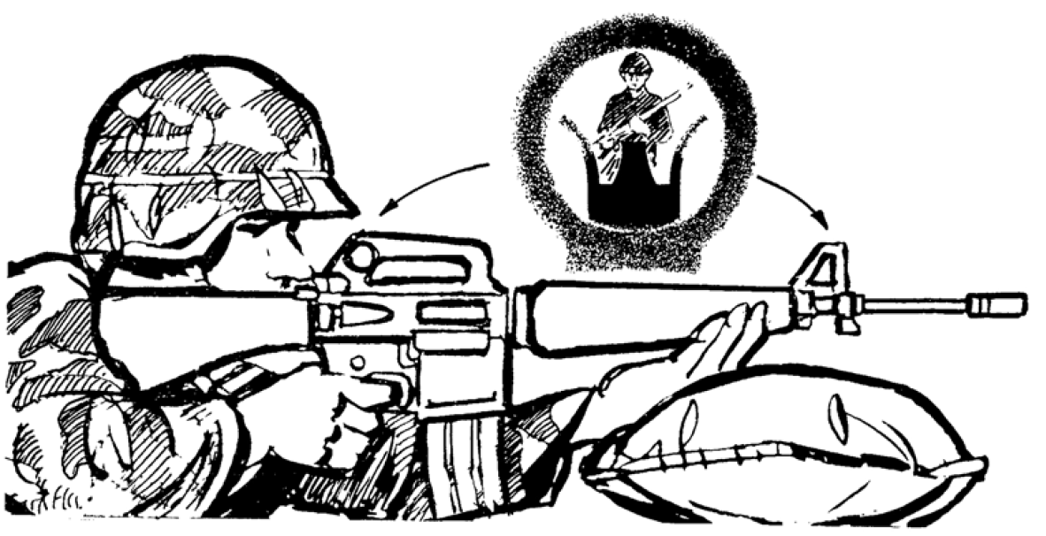 M16 rifle correct sight picture